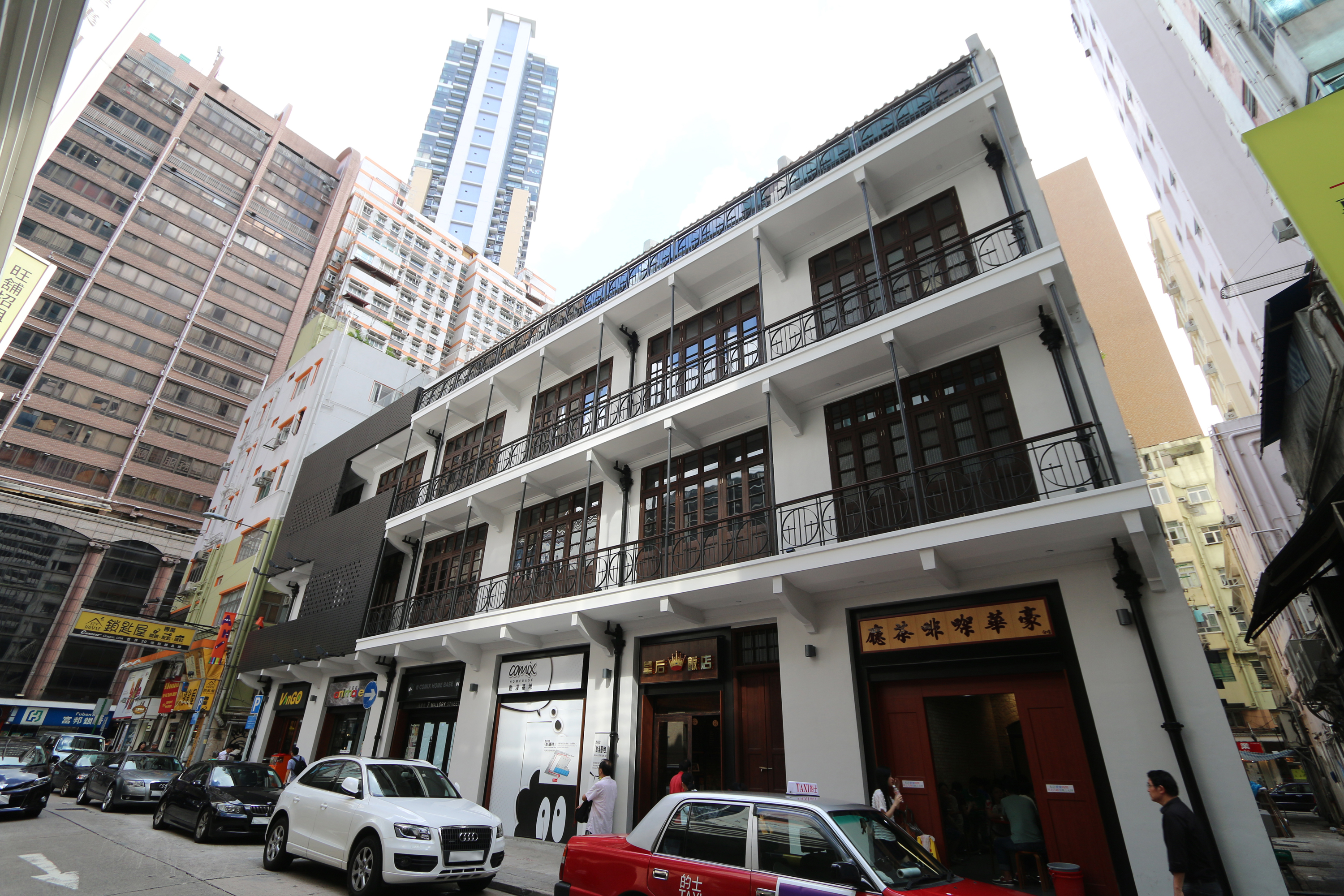 Green House Mallory Street Burrows Street, Hong Kong